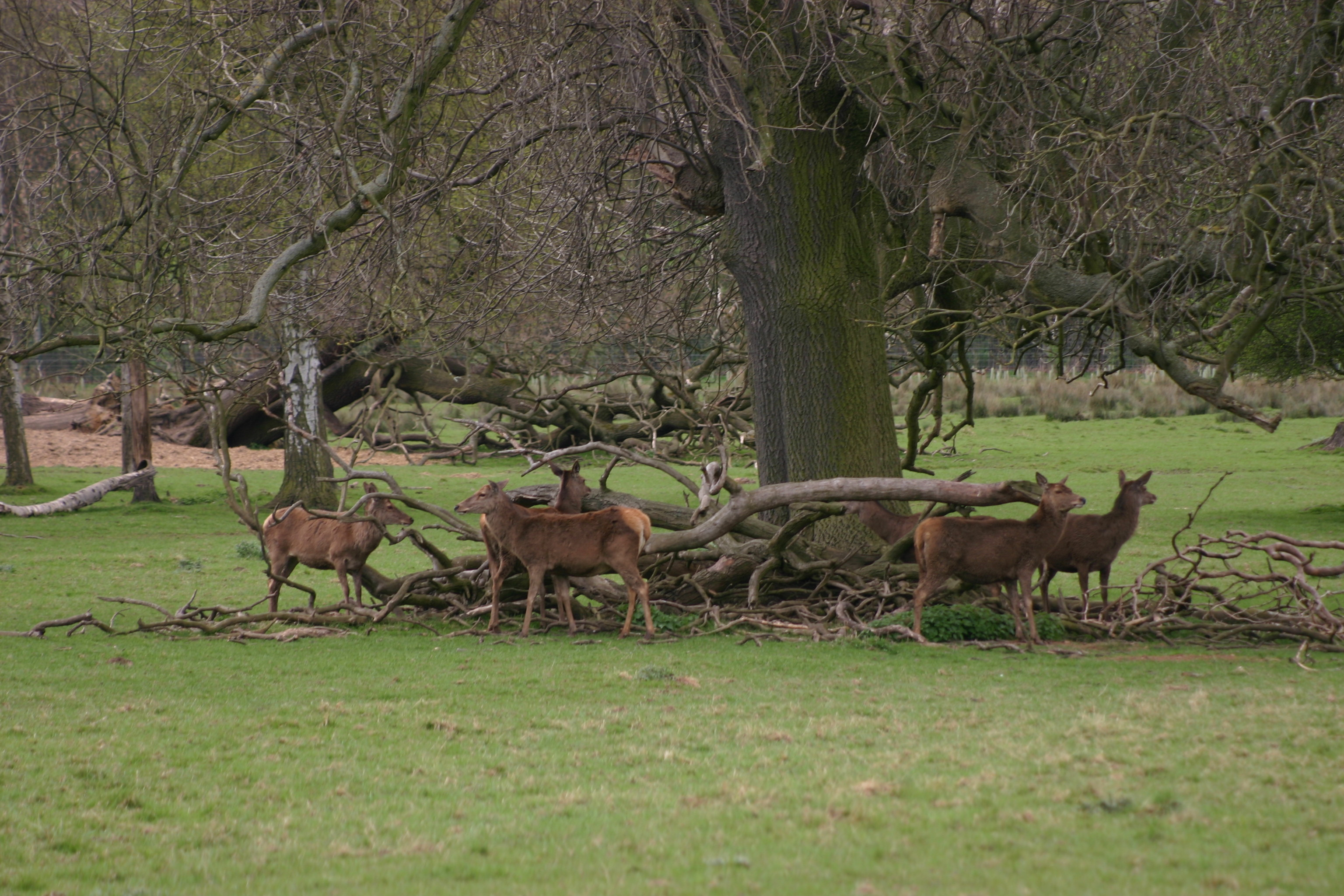 Deer in the deer park at Lotherton Hall. In Aberford, near Leeds, England.